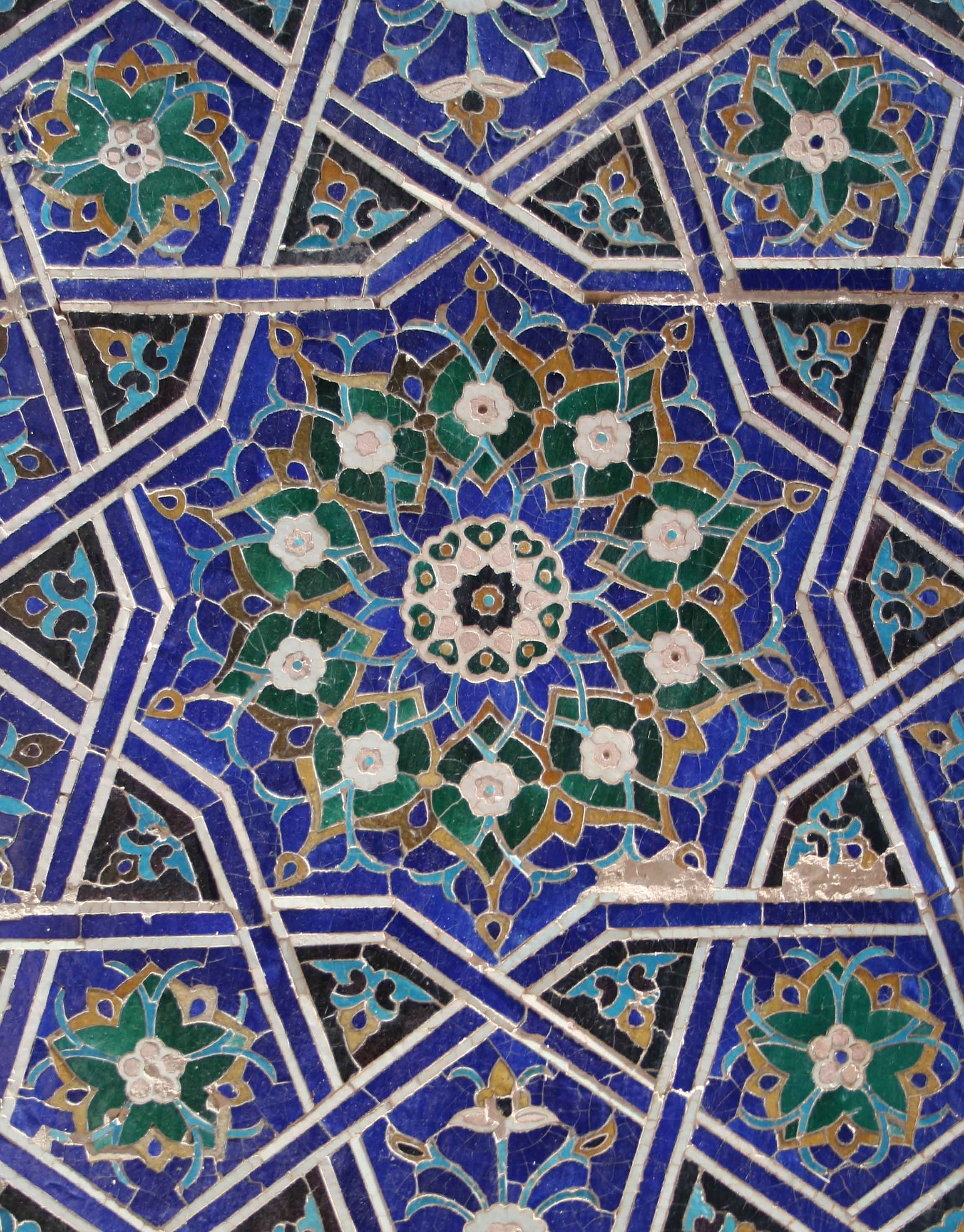 Samarkand, Shah-i Zinda : decoration of the Tuman Aqa complex. A girih strapwork design with a 10-point star is infilled with floral arabesques forming 5- and 10-point stars.